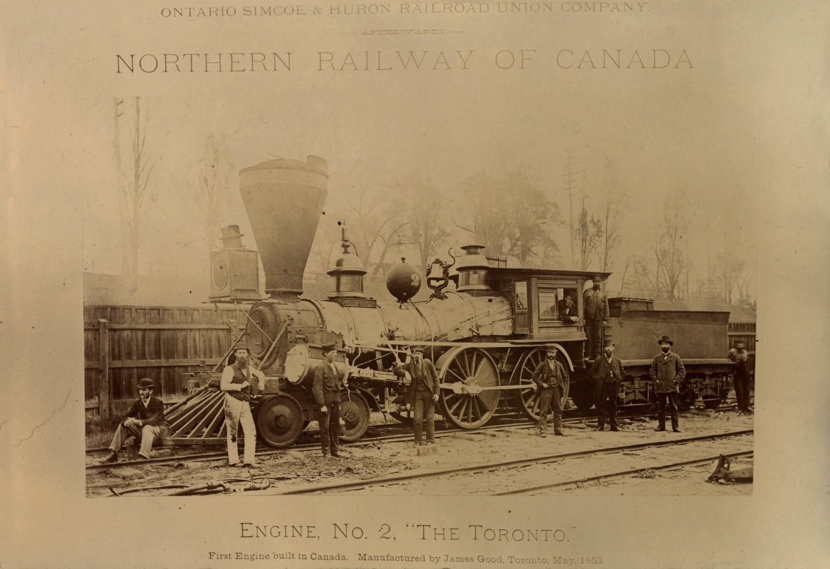 The Ontario, Simcoe and Huron Railroad was founded in July 1849 and named for the three lakes it connected. It became the Northern Railway of Canada, and was acquired by the Grand Trunk railway. It's an early predecessor of the Canadian National Railway we know today. This photograph from Toronto Public Library's Digital Archive shows the steam locomotive engine number 2, the first engine built in Canada. It was manufactured by James Good here in Toronto, in May of 1853. Creator: Unknown Date: 1881 Identifier: B 2-51c Format: Ephemera Rights: Public domain Courtesy: Toronto Public Library. More information: (view details and larger image)